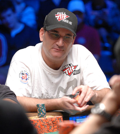 Mike Matusow at the 2008 World Series of Poker